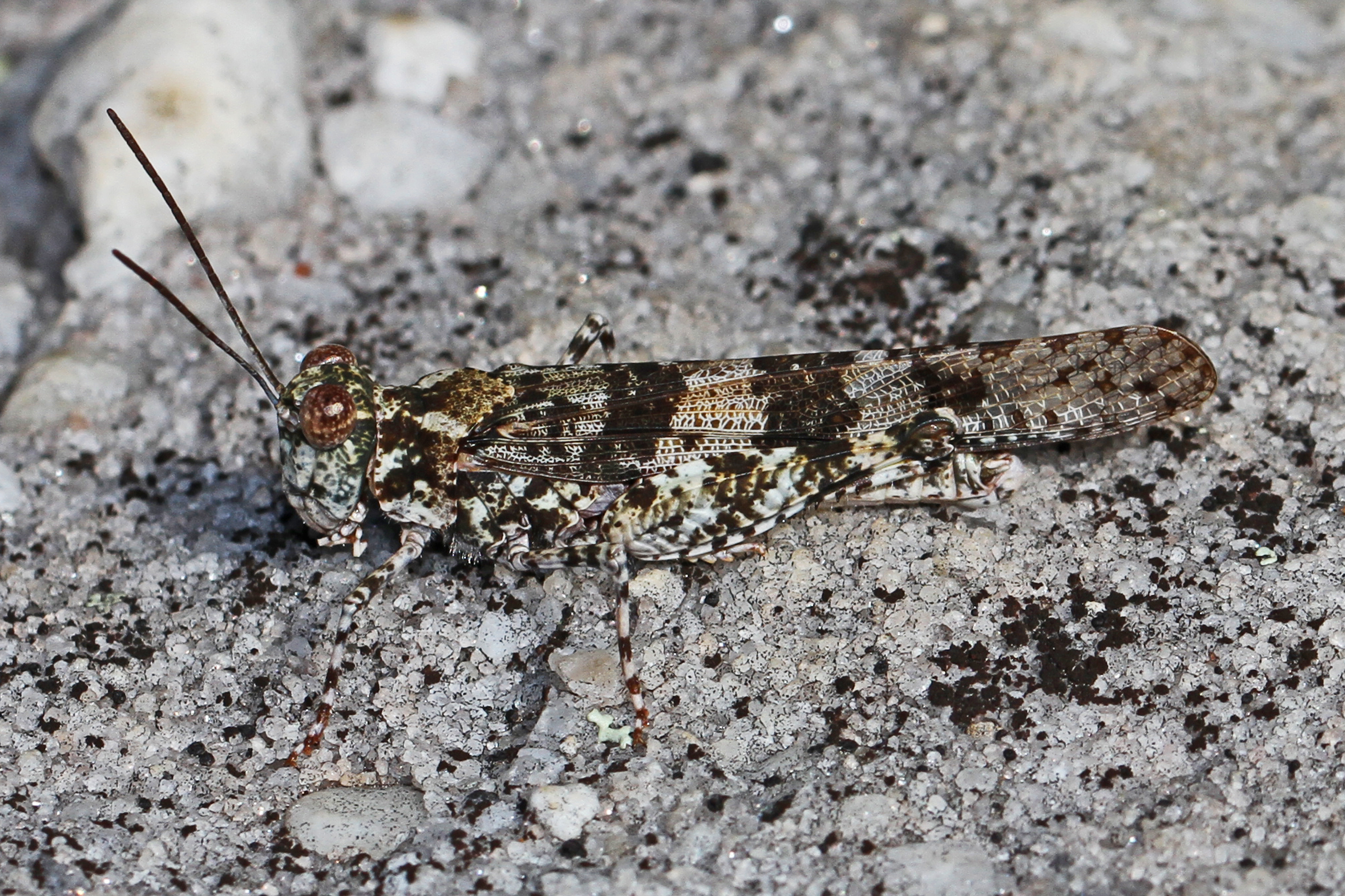 Lichen Grasshopper - Trimerotropis saxatilis, Little River Canyon National Preserve, Fort Payne, Alabama. Its coloring makes it hard to see against the lichen. Identification was confirmed by bugguide